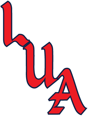 The association's secondary logo